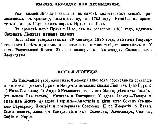 Georgian princely families in the Lists of the Titled Families and Persons of the Russian Empire, 1892.